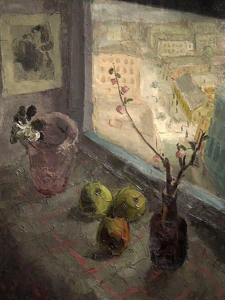 Efraim and Menasze Seidenbeutel - View from Window ca. 1930, oil on canvas